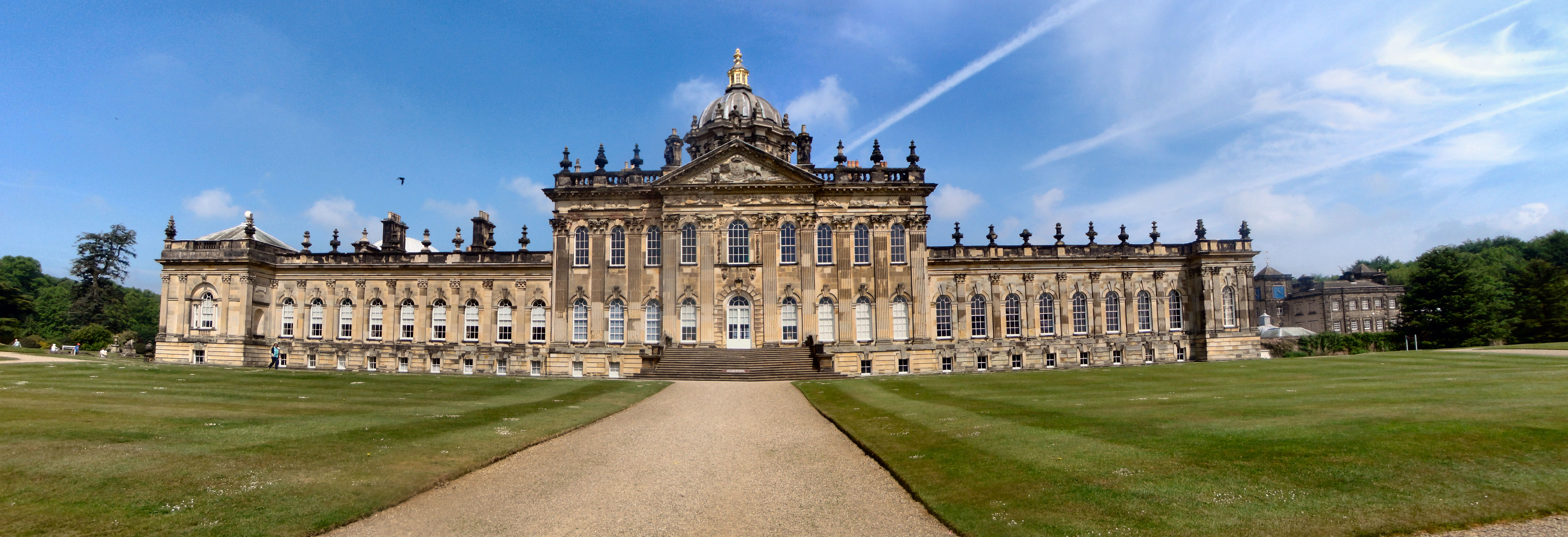 Panoramic shot of the southern facade (seen from the gardens) of Castle Howard